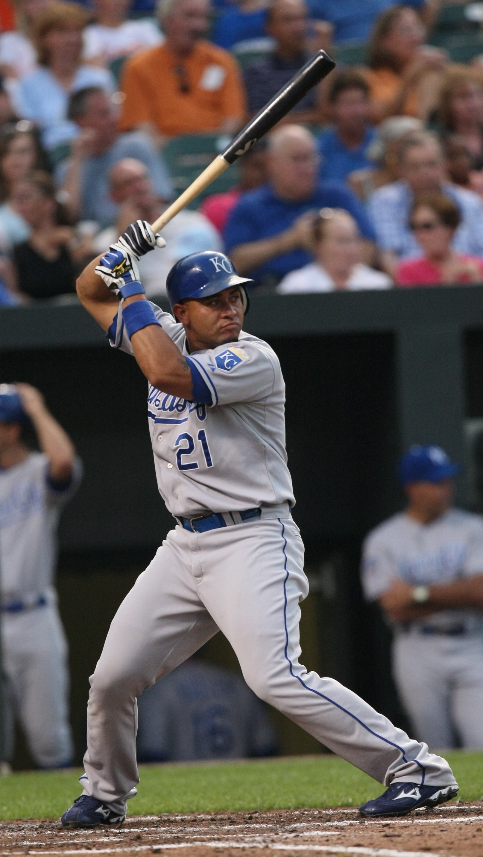 Dominican baseball player Miguel Olivo.